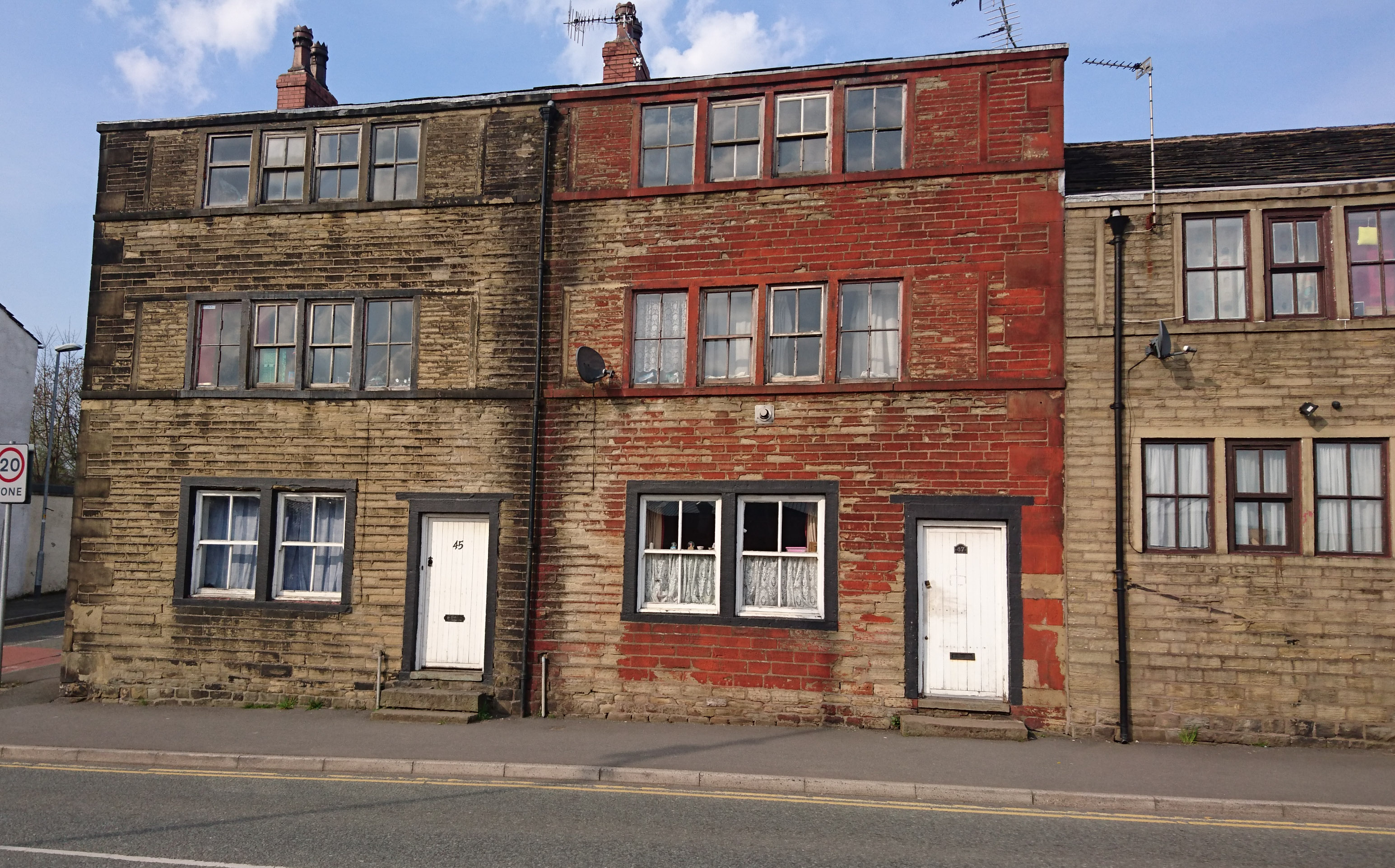 Two former weavers' cottages in Milnrow, Greater Manchester, as photographed in April 2018.